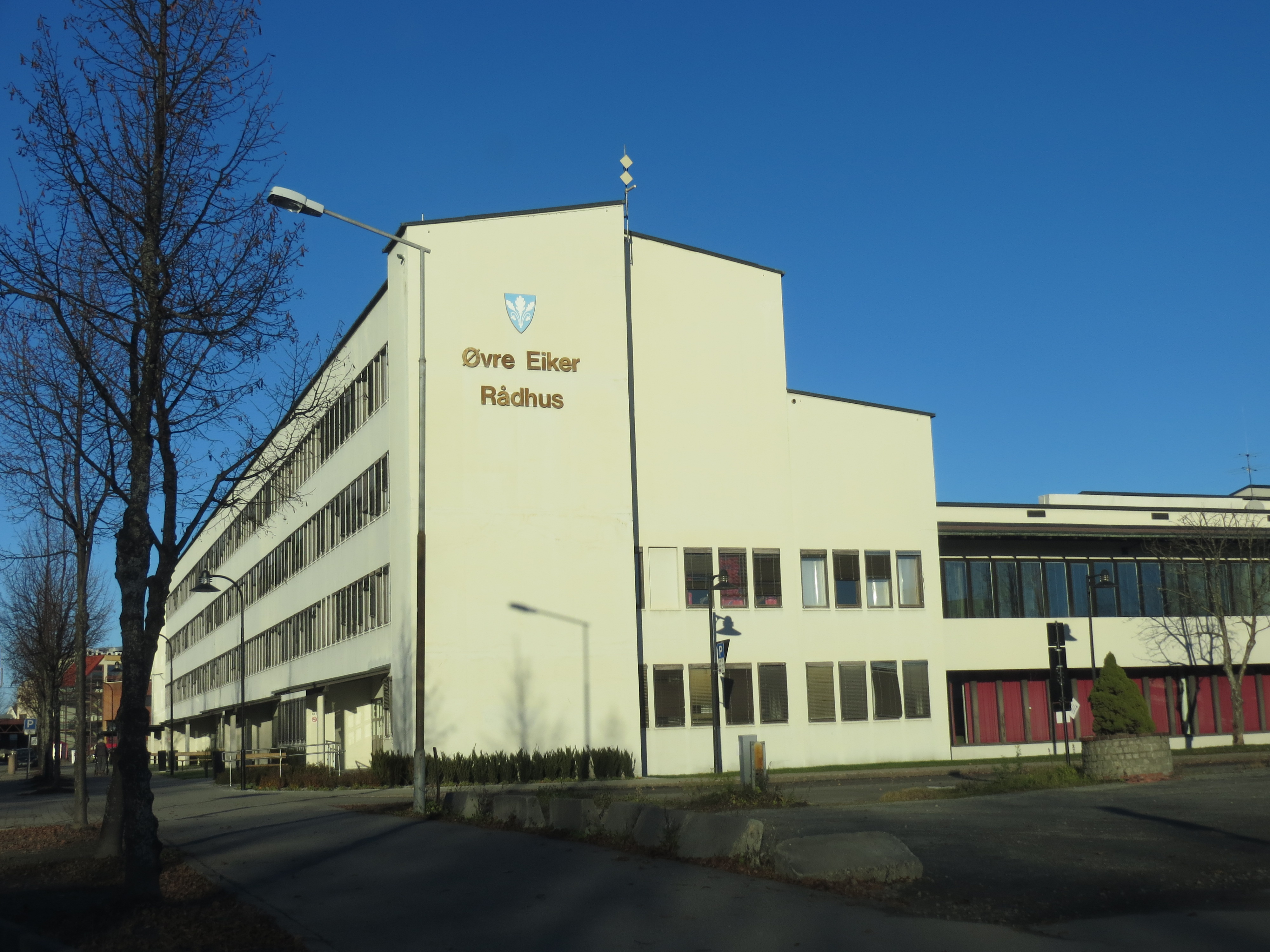 The city hall of the municipality Øvre Eiker - Buskerud county, Norway